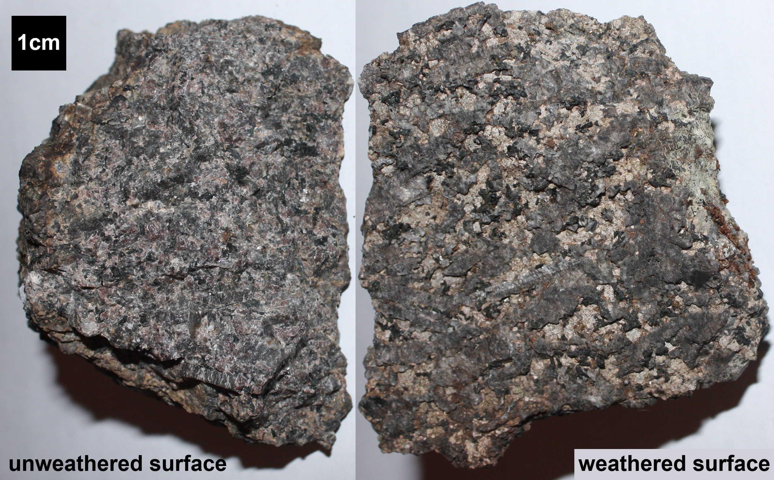 Hand sample of Nepheline syenite of the Ordovician Beemerville Complex, northern New Jersey. Unweathered surface shown on left, weathered surface shown on right (with some sparse moss). Collected 21 Oct. 2012.